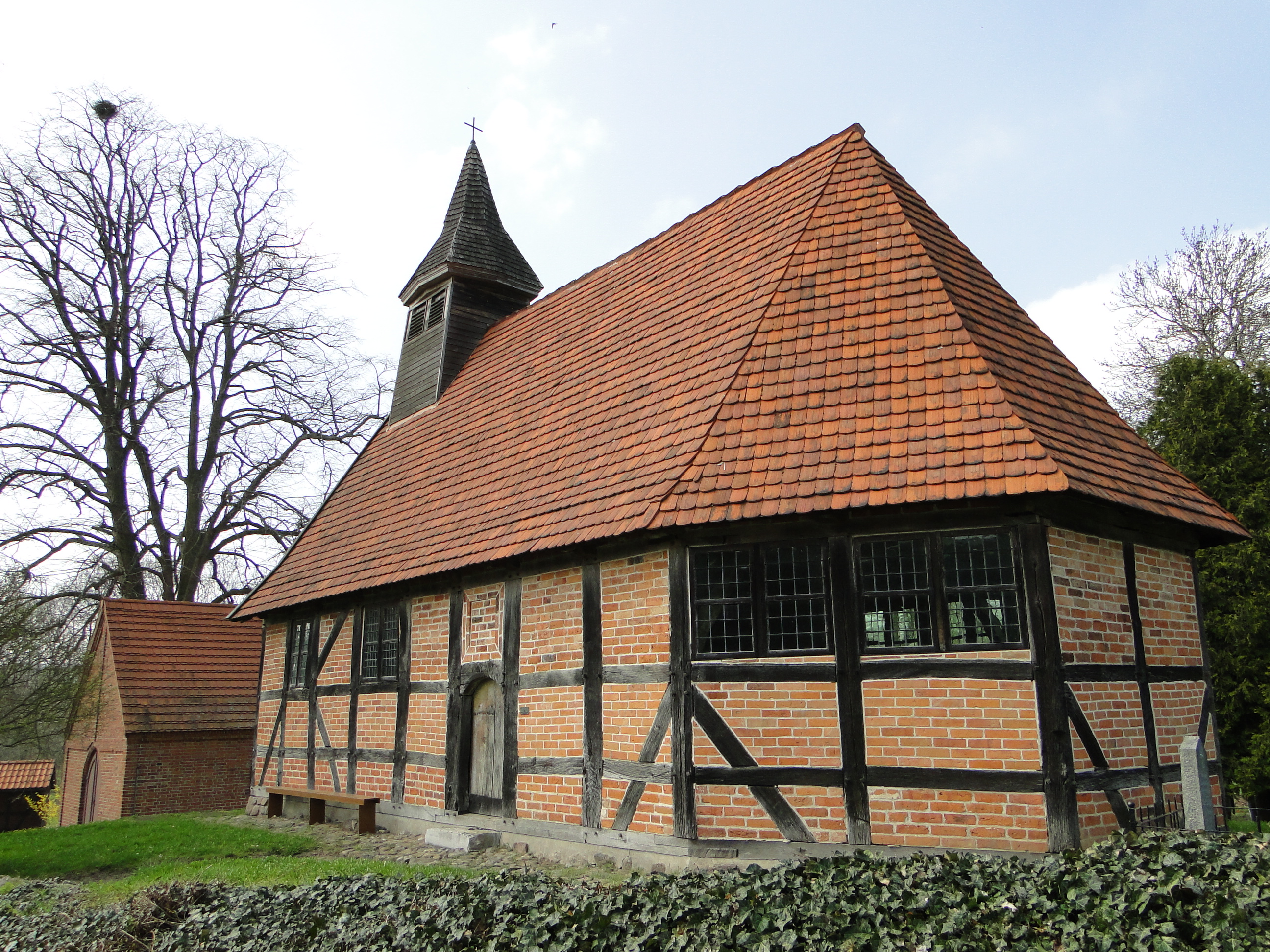 Church in Zaschendorf, district Ludwigslust-Parchim, Mecklenburg-Vorpommern, Germany